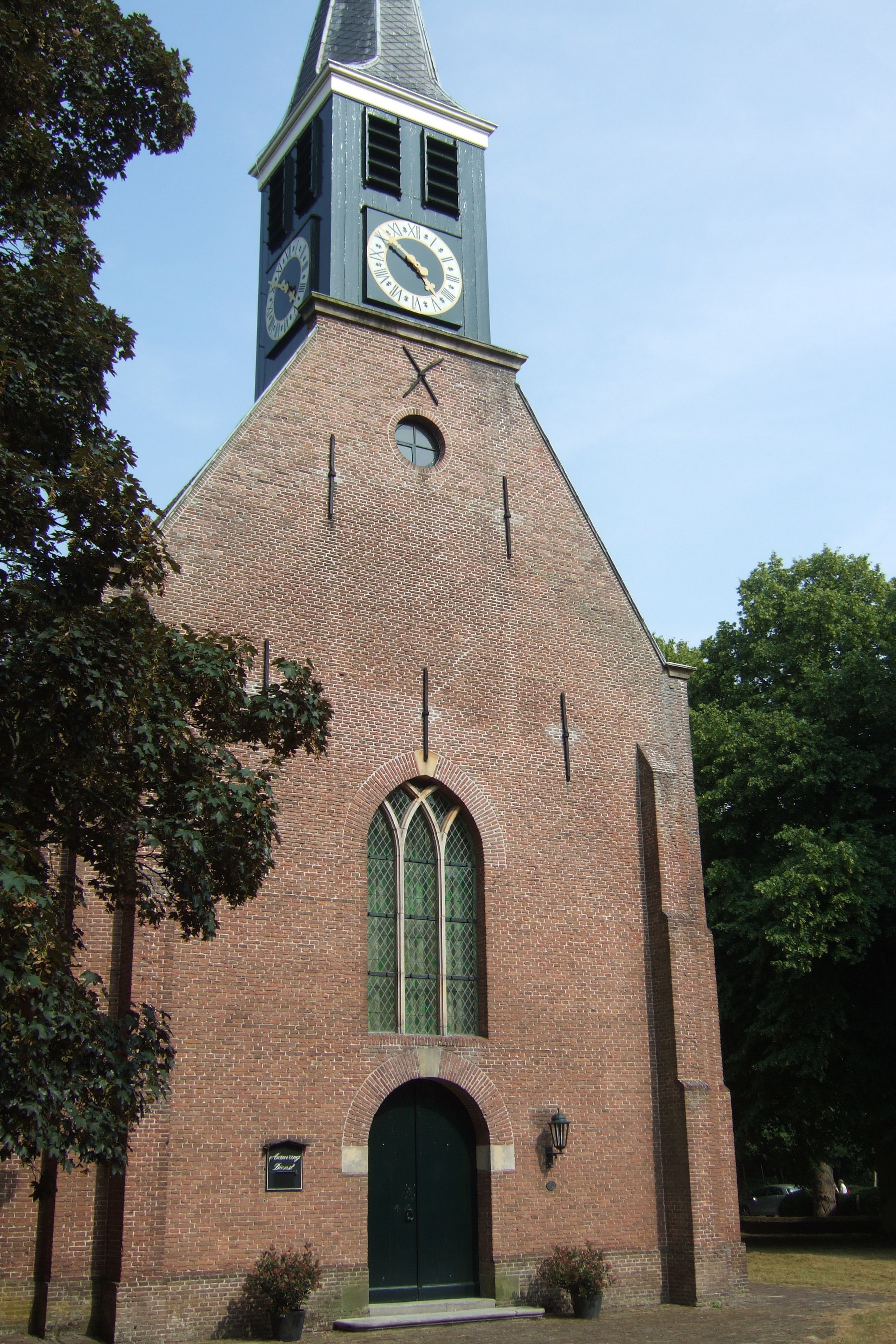 Church in Schoorl